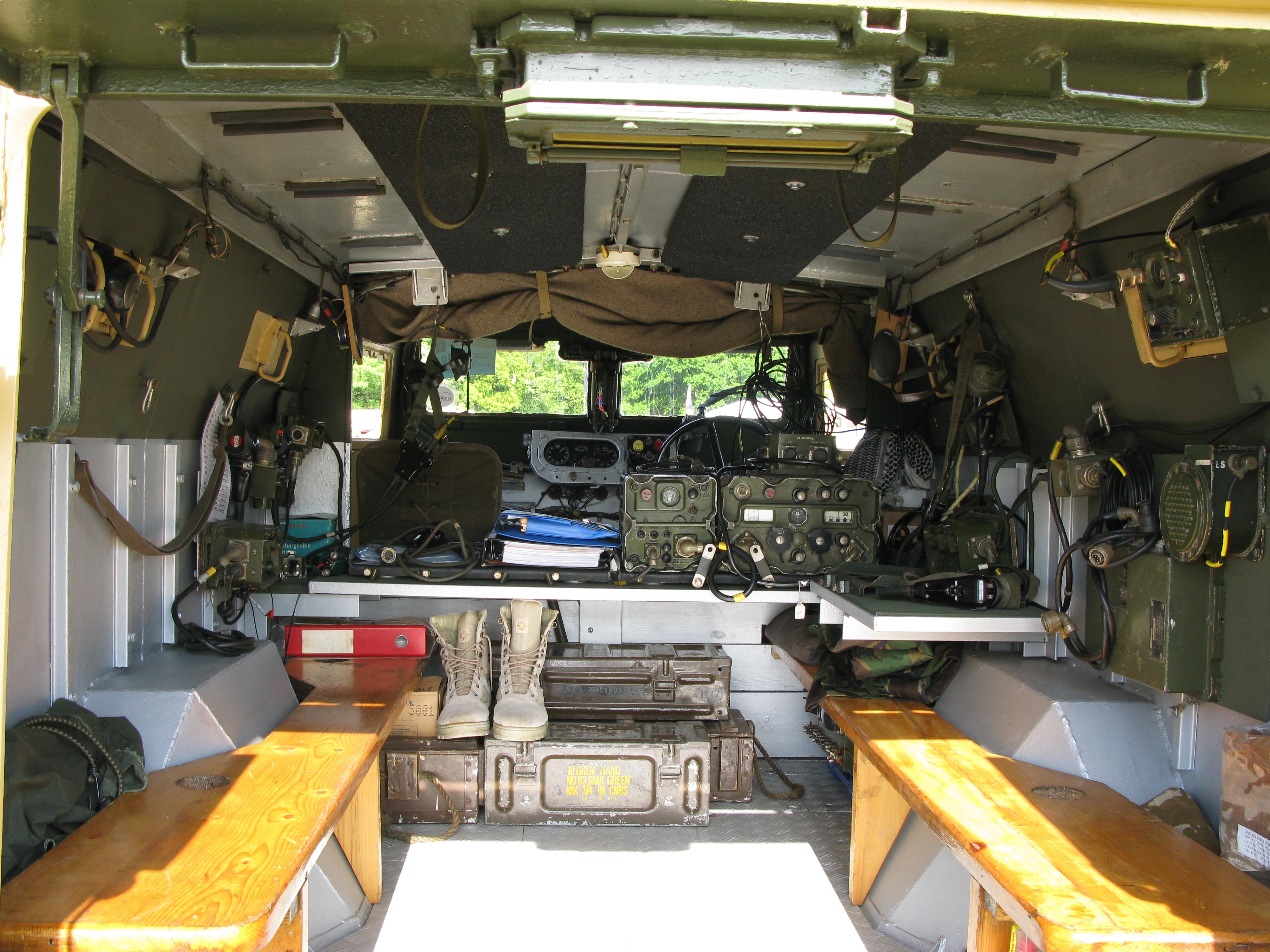 Photo of the interior of a Mk1 Humber pig viewed through the rear doors.